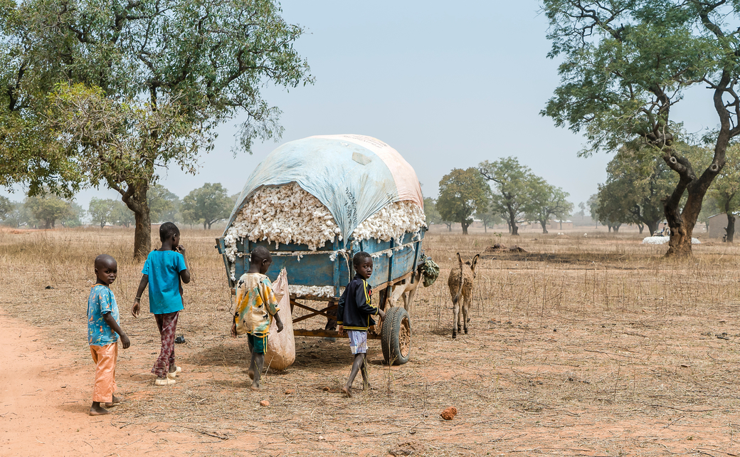 On one of our visits to a Malien village (Fama), we stumbled on some cotton farmers. Cotton in West-Africa is seen as 'white gold' ... farming white-gold This is an image of "African people at work" from Mali